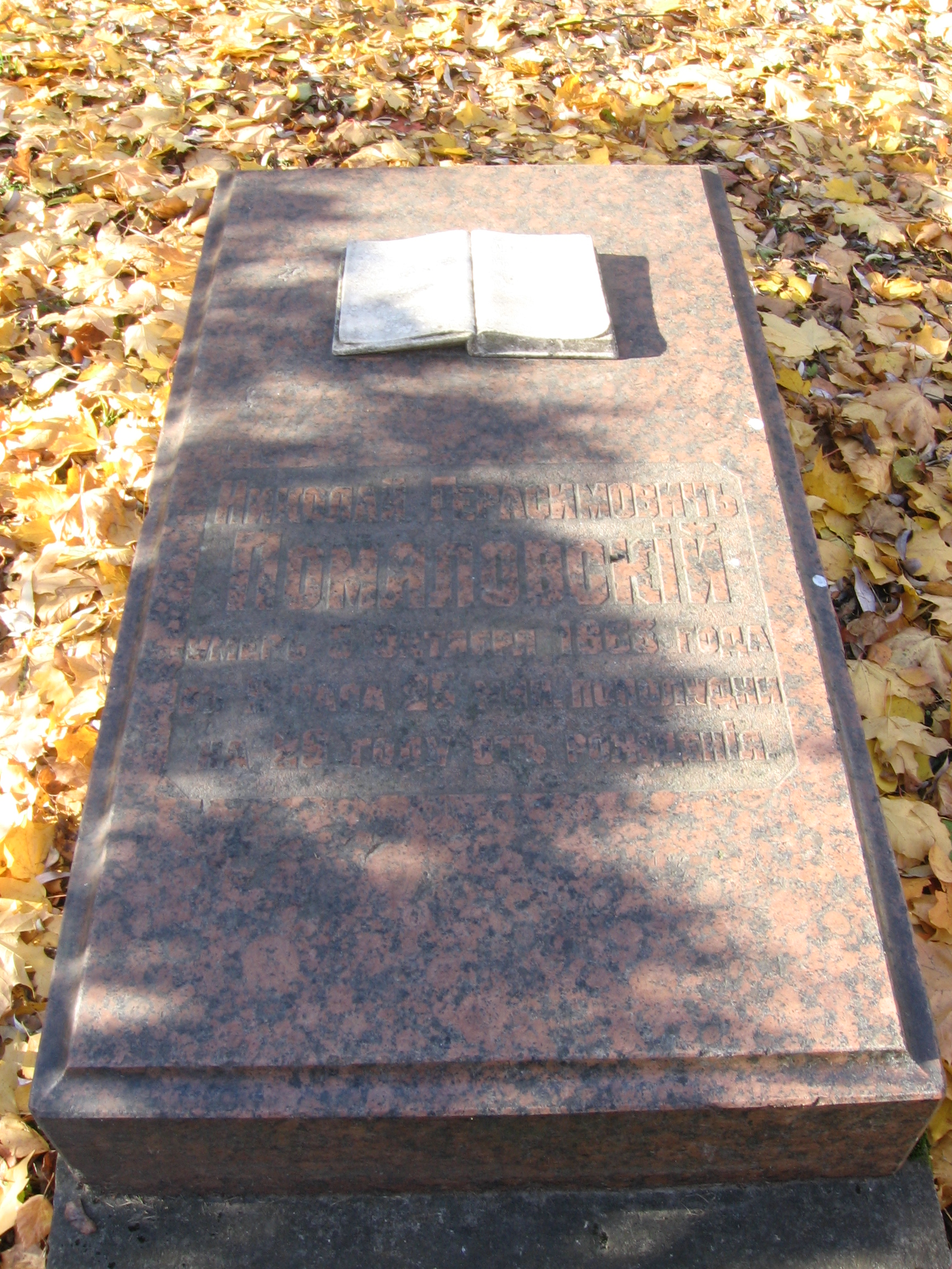 Grave of Nikolay Pomyalovsky